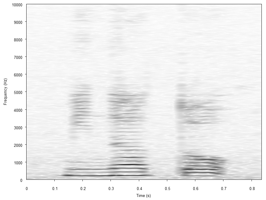 Modification of [1] Redone with the ARSS with a better frequency resolution, as the original privileged an overkill time resolution which overlooked important features of the sound and as such didn't represent very well what it was supposed to.